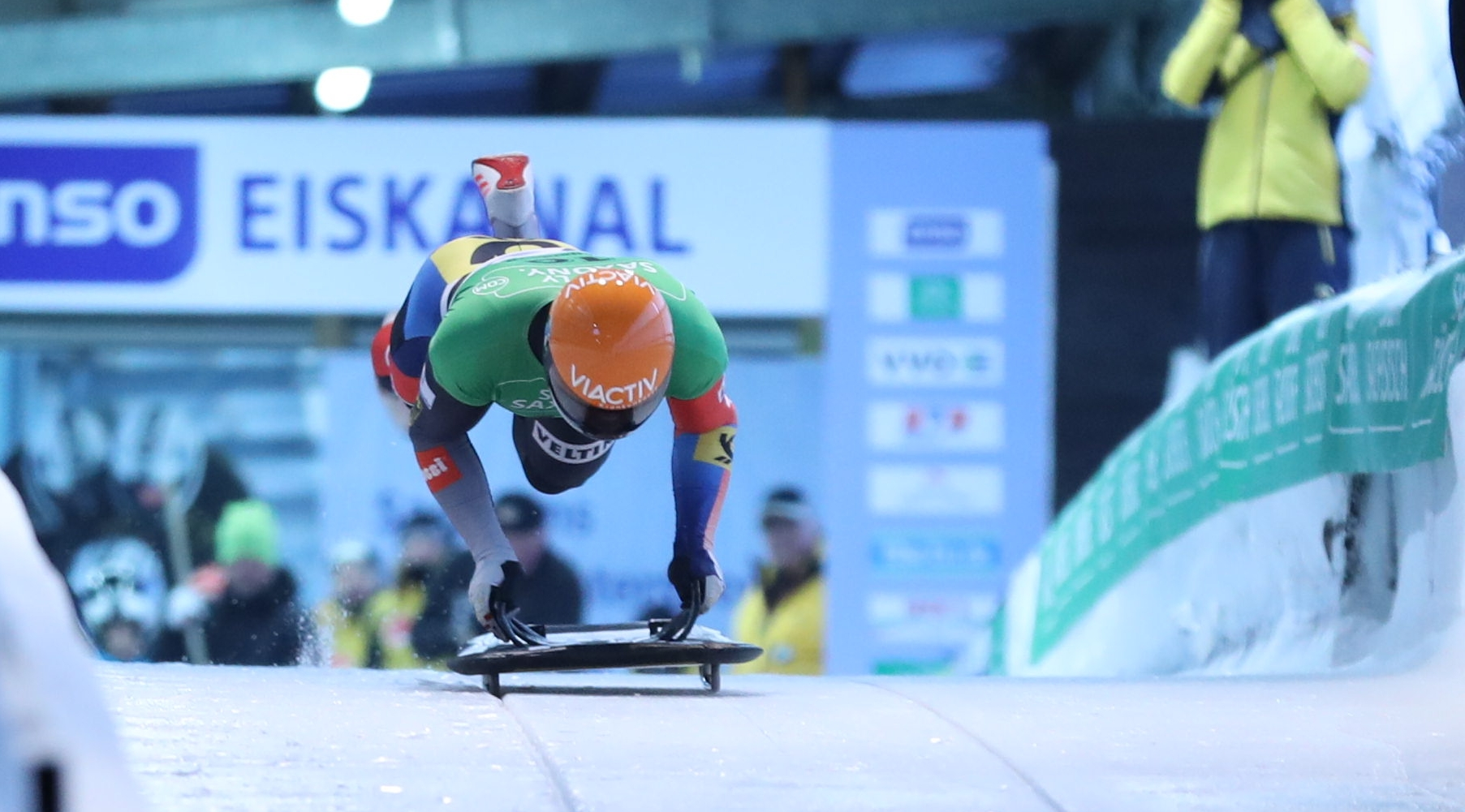 1st run at the Men's competition at the German Skelton Championships 2018/19 in Altenberg